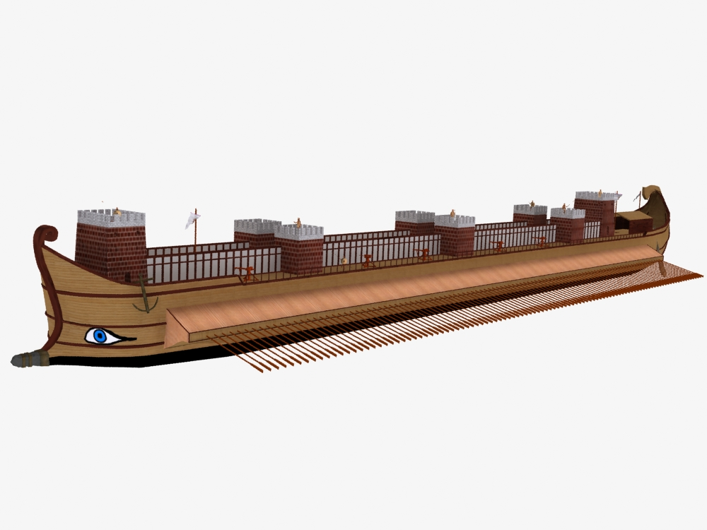 Digital reconstruction of ancient ship Leontophoros.